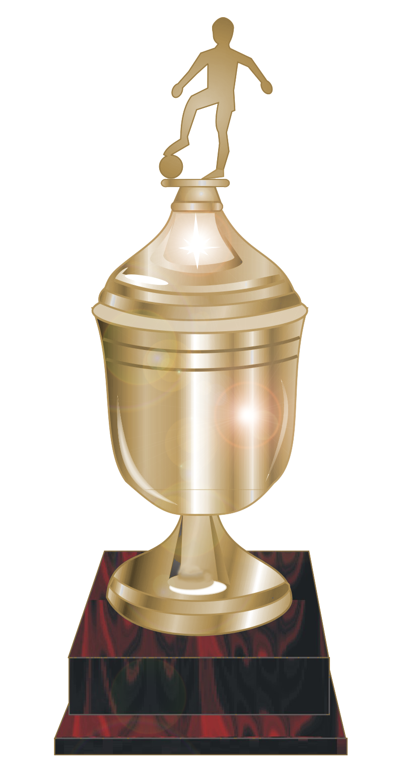 The 1969 Copa Argentina trophy. The tournament had two editions, in 1969 and 1970 being then abandoned. When the championship was relaunched in 2011, a new trophy was designed.